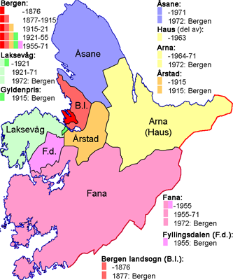 The development of the city of Bergen, Norway from 1877-1972